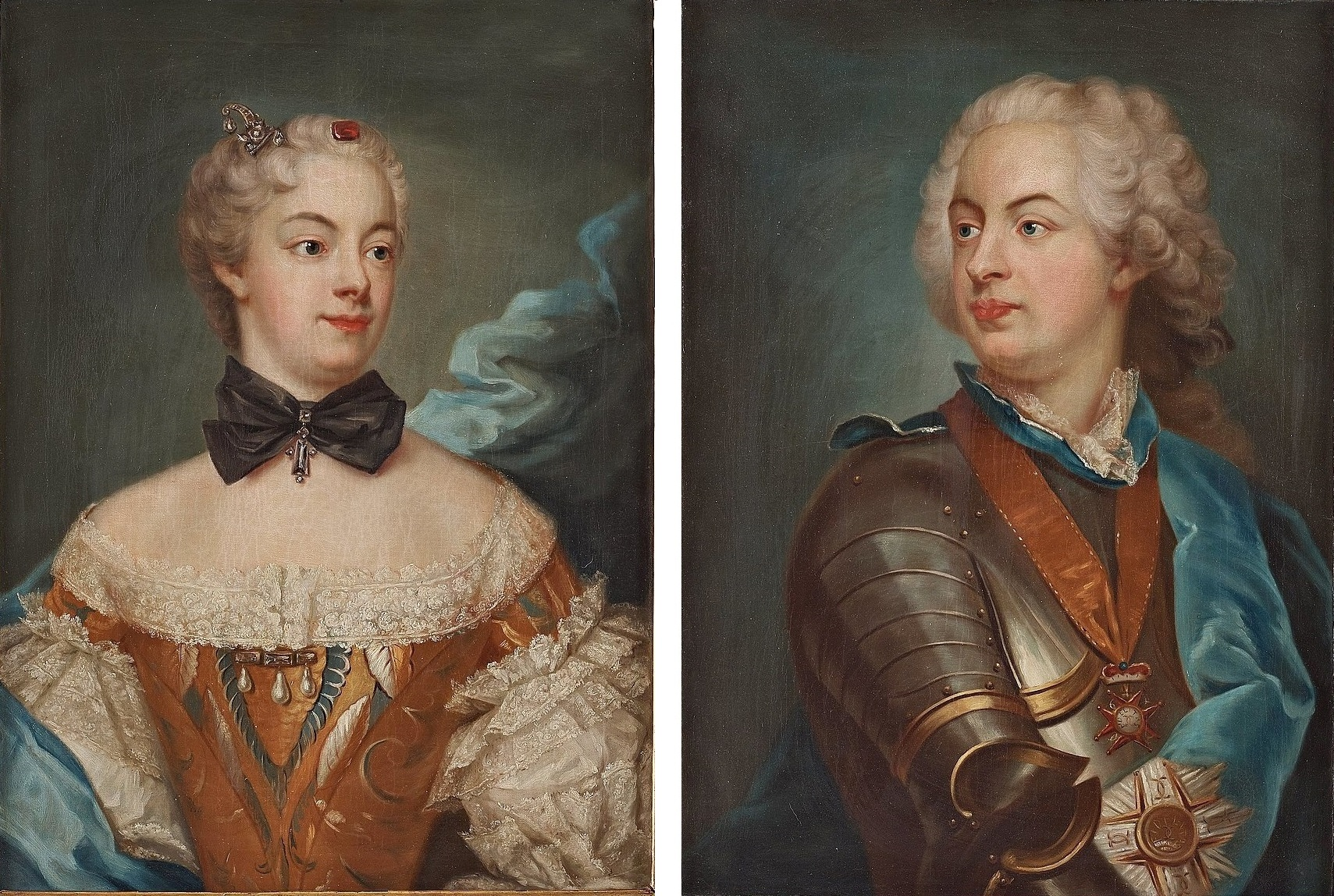 Johan Henrik Scheffel: Nils Bielke and his wife Hedvig née Sack